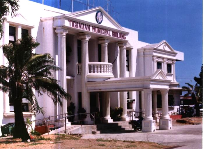 The Tigbauan Municipal Hall in Tigbauan, Iloilo, the Philippines.